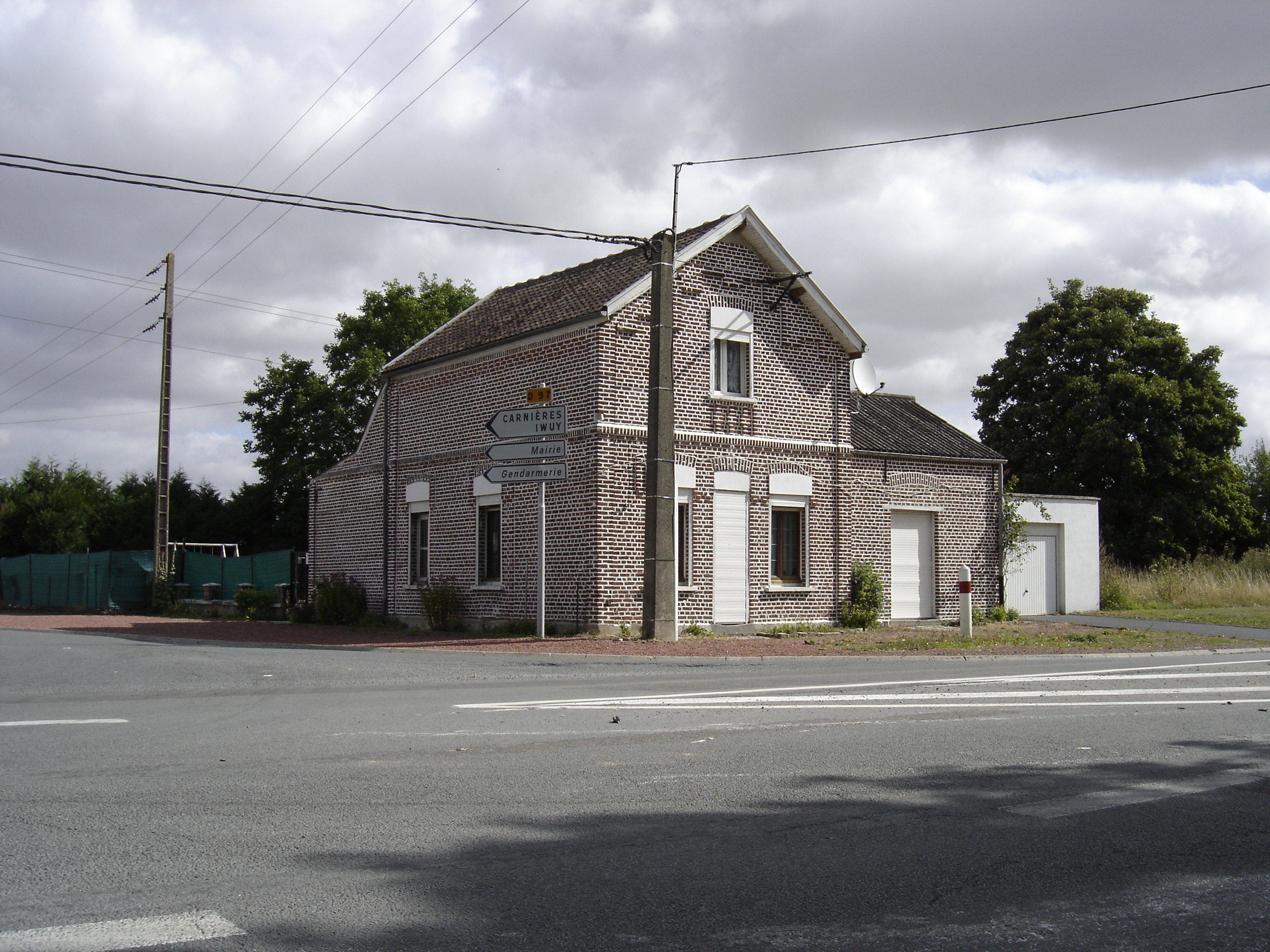 Old railway station of Carnières